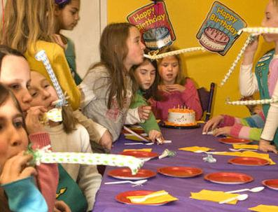 Children's Museum & Theatre of Maine Birthday Party Room